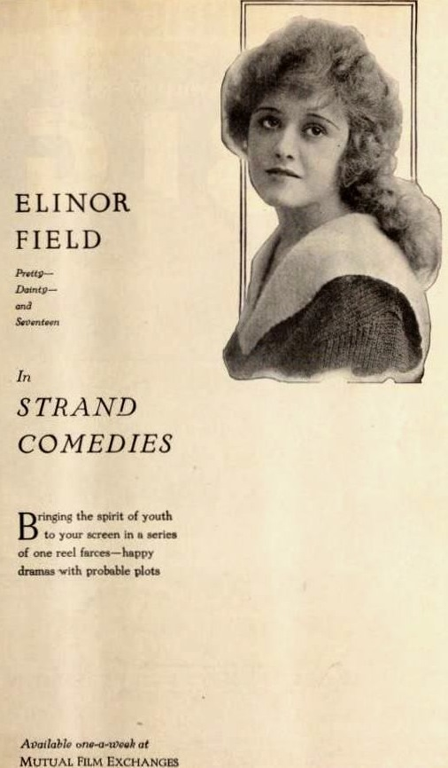 Advertisement for Strand Comedies featuring American actress Elinor Field, on page 3 of the August 3, 1918 Exhibitors Herald.